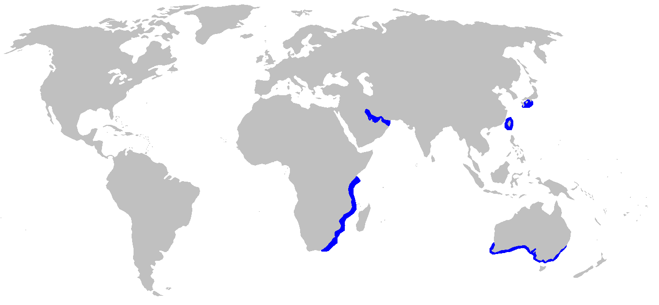 Distribution map for Hypogaleus hyugaensis